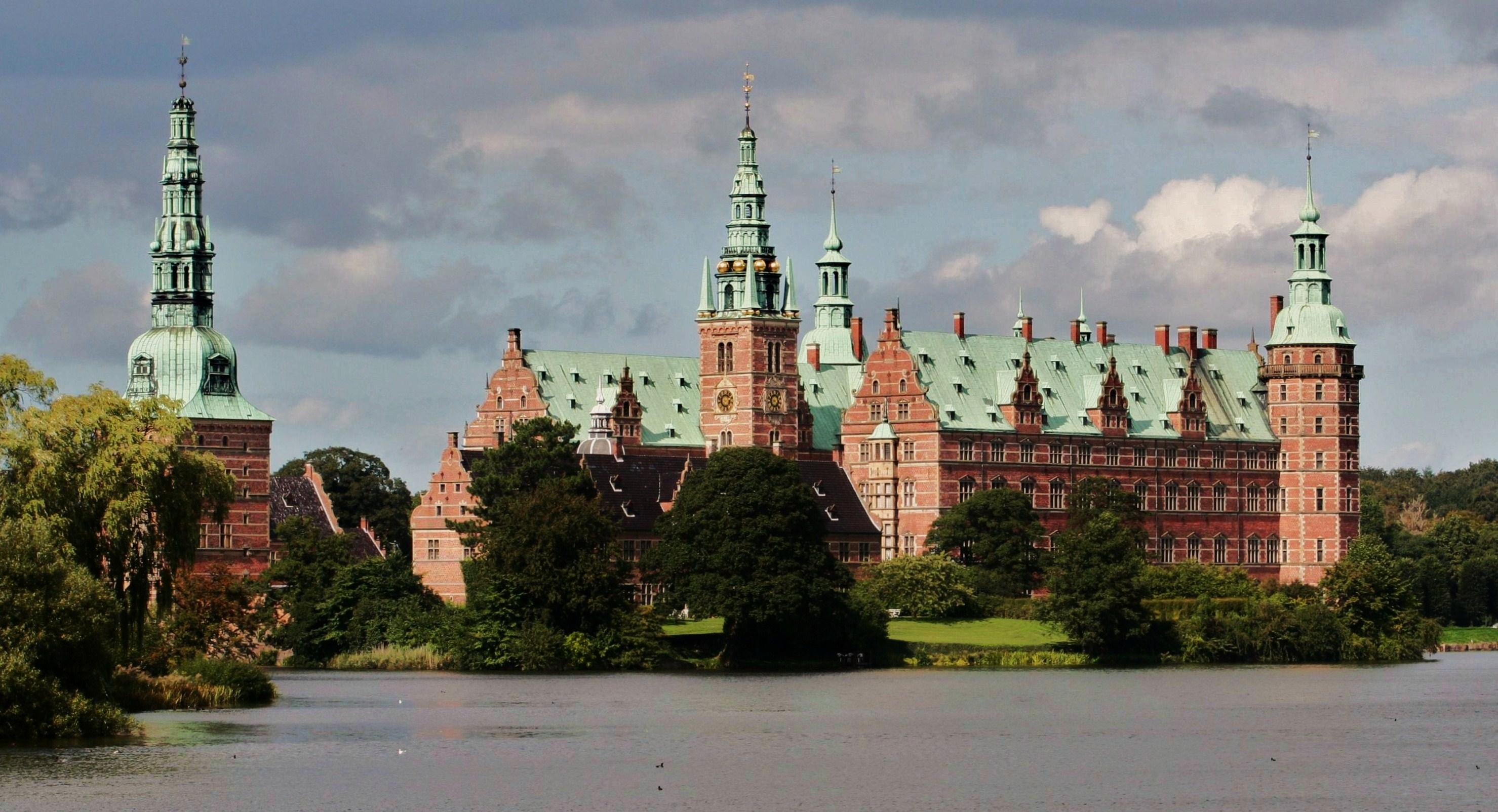 Frederiksborg slot in sunshine